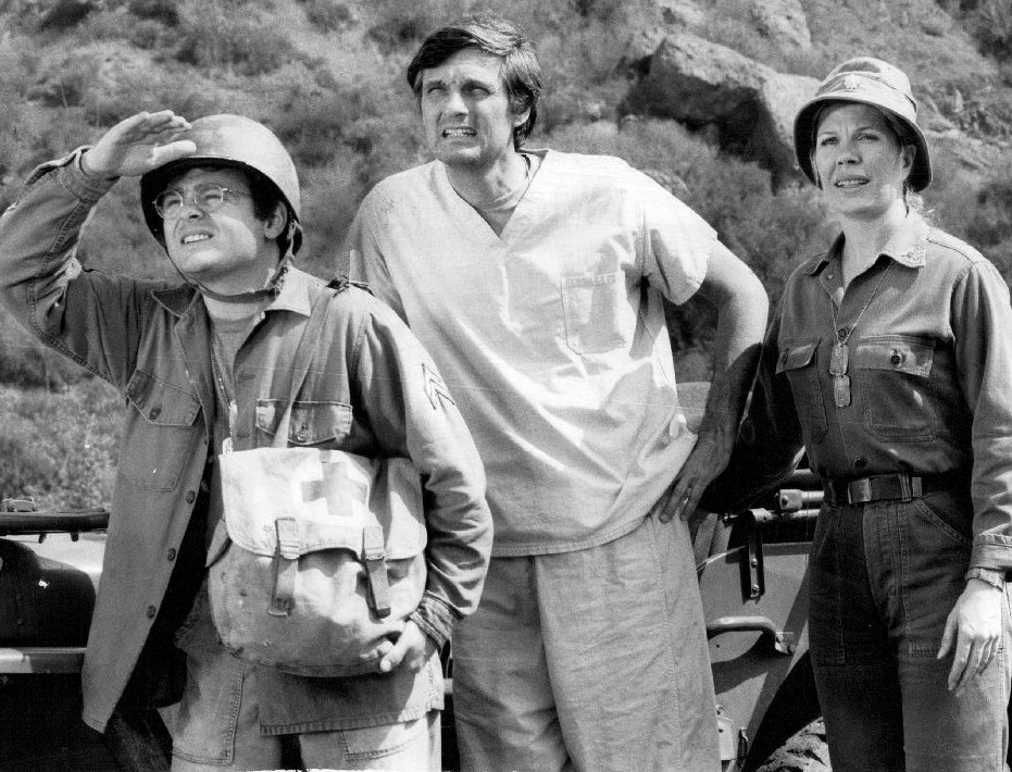 Photo of Gary Burghoff, Alan Alda and Loretta Swit from the television program M*A*S*H. Radar, Hawkeye and Margaret are on the alert when there's a rumor of an invasion by Chinese troops.